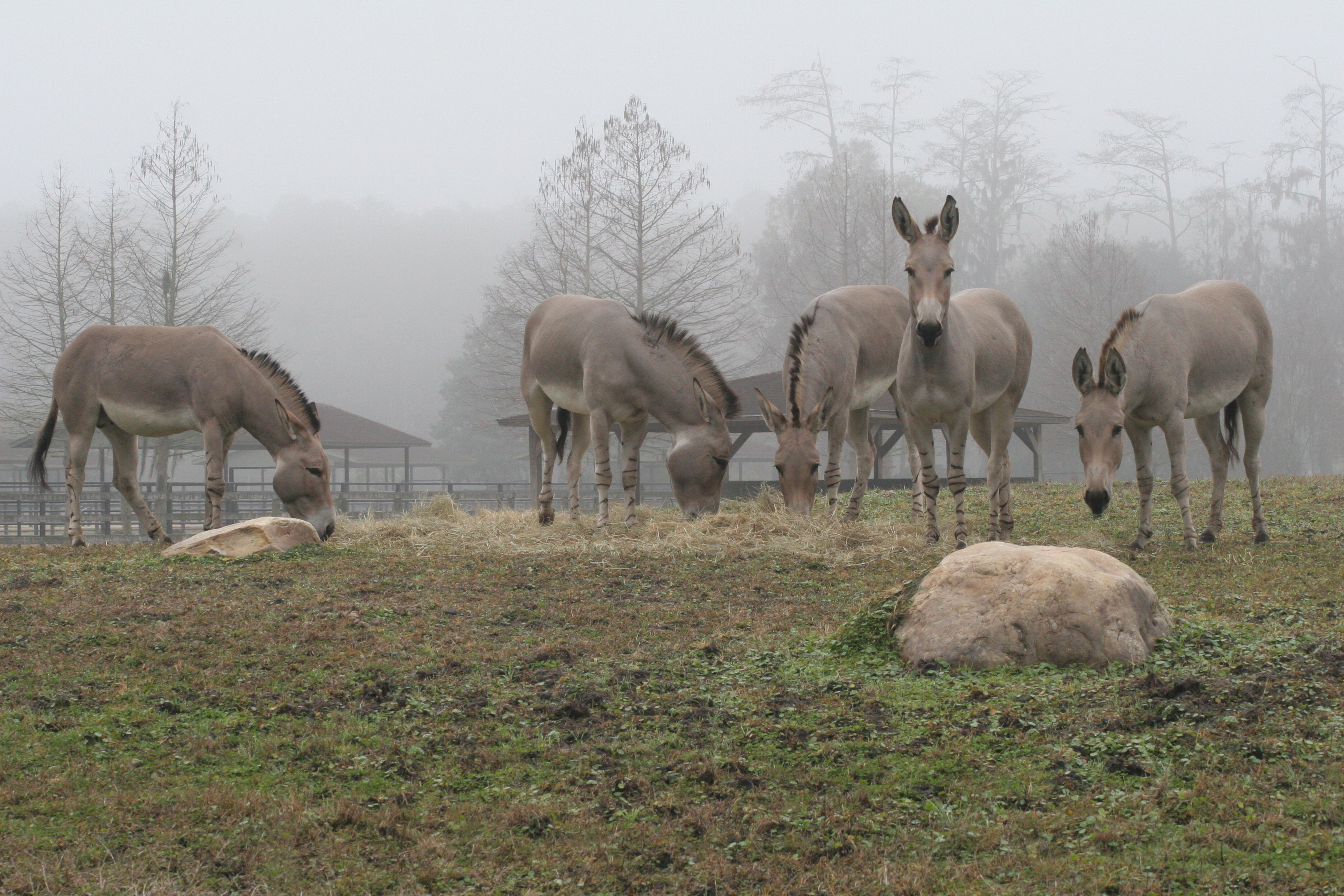 Somali wild ass feeding at White Oak